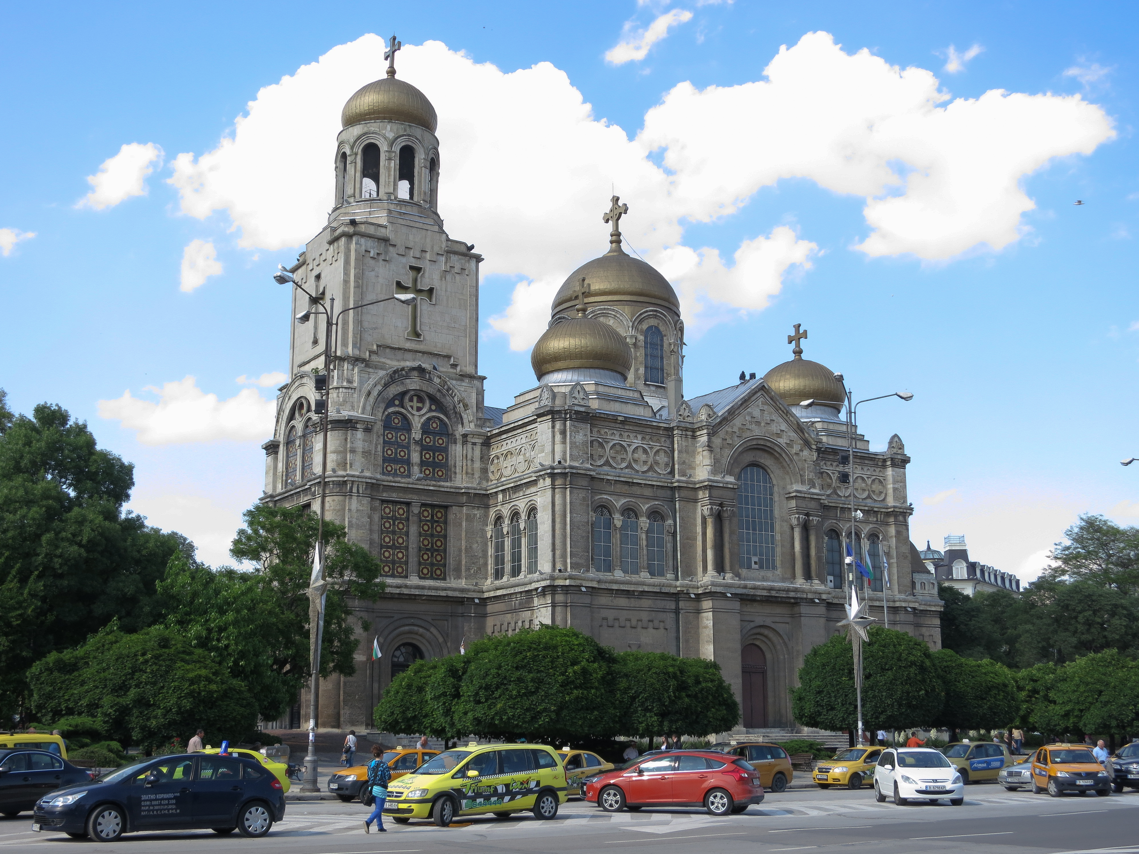 The cathedral of Varna, Bulgaria.